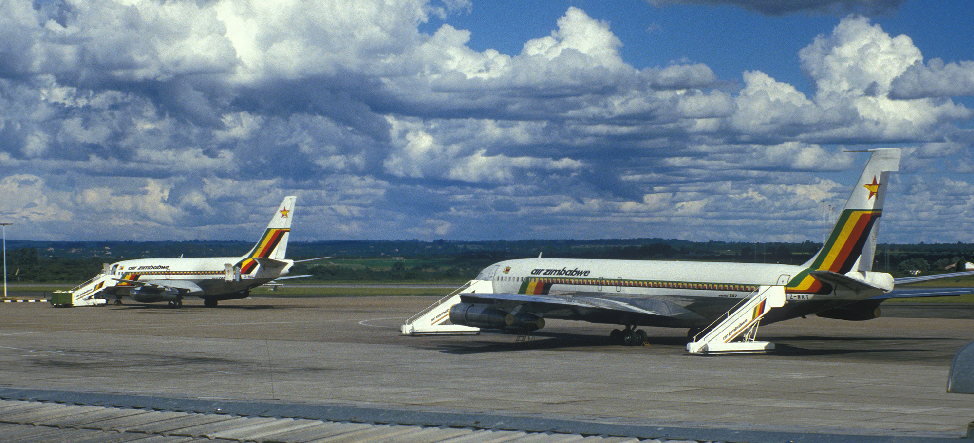 Air Zimbabwe 707 (right) and 737-200 at Harare airport in February 1987